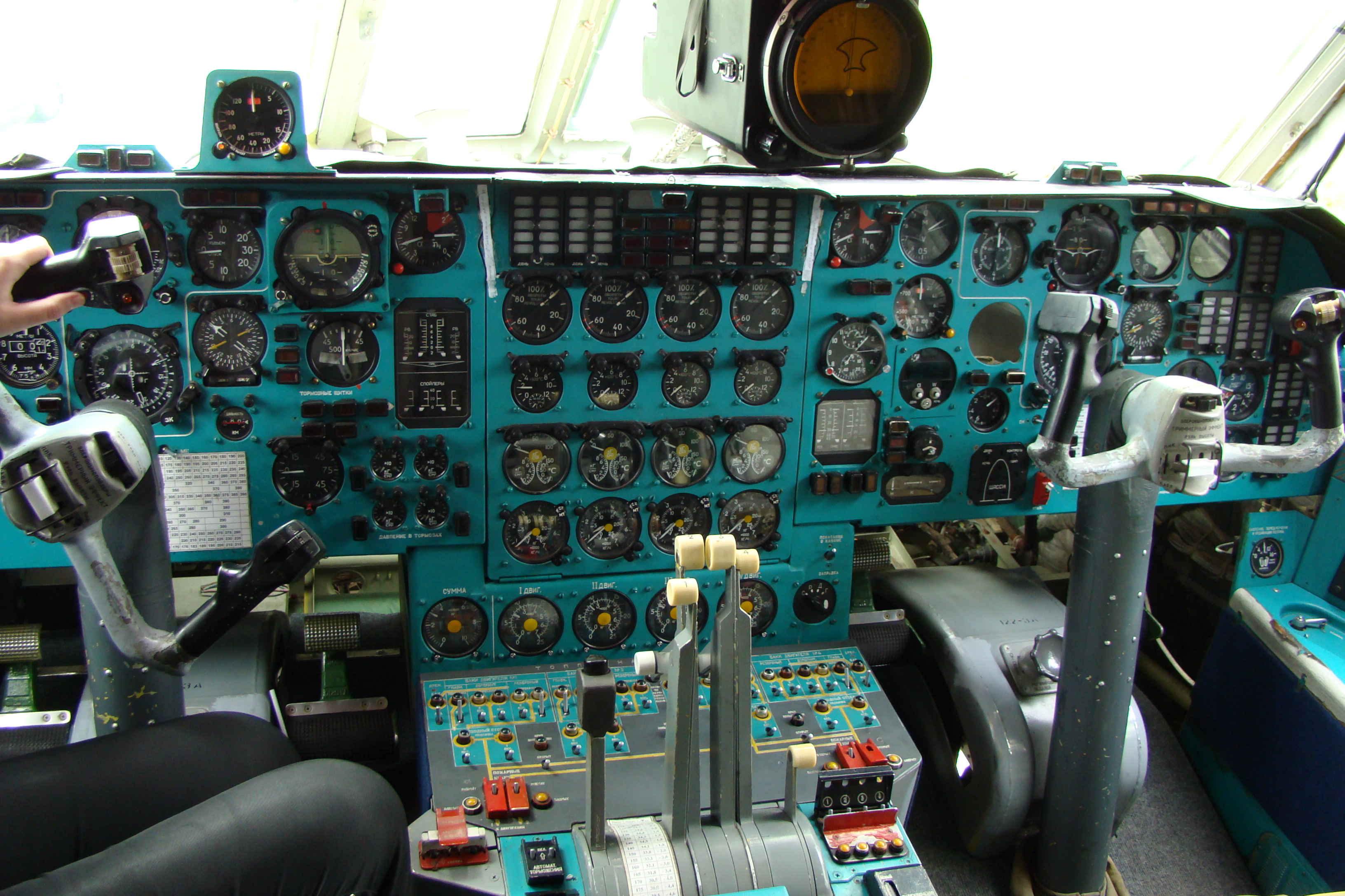 Cockpit Ilyushin Il-76MD